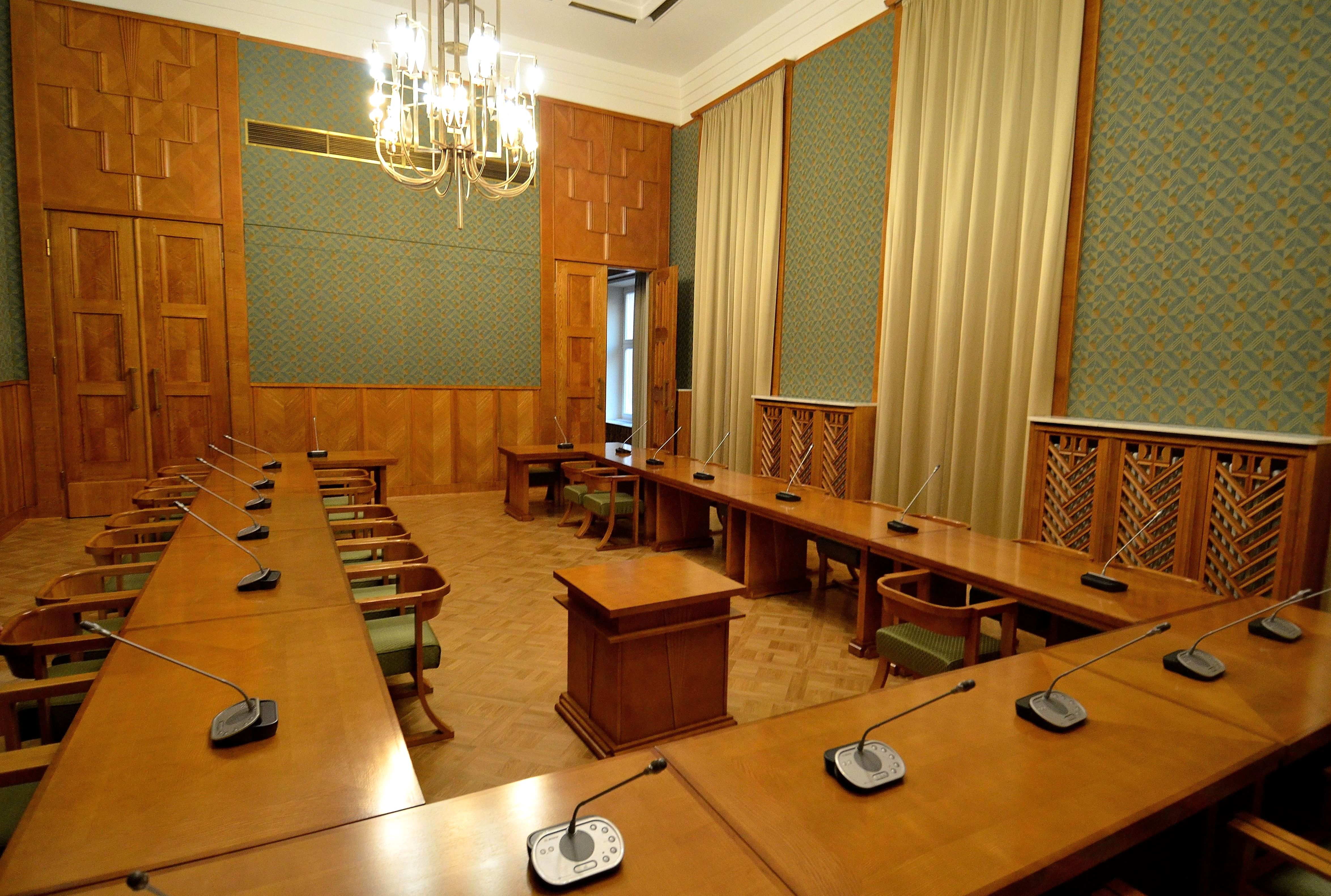 Anna Radziwiłł conference hall at the Ministry of National Education at 25 Jana Ch. Szucha Avenue in Warsaw